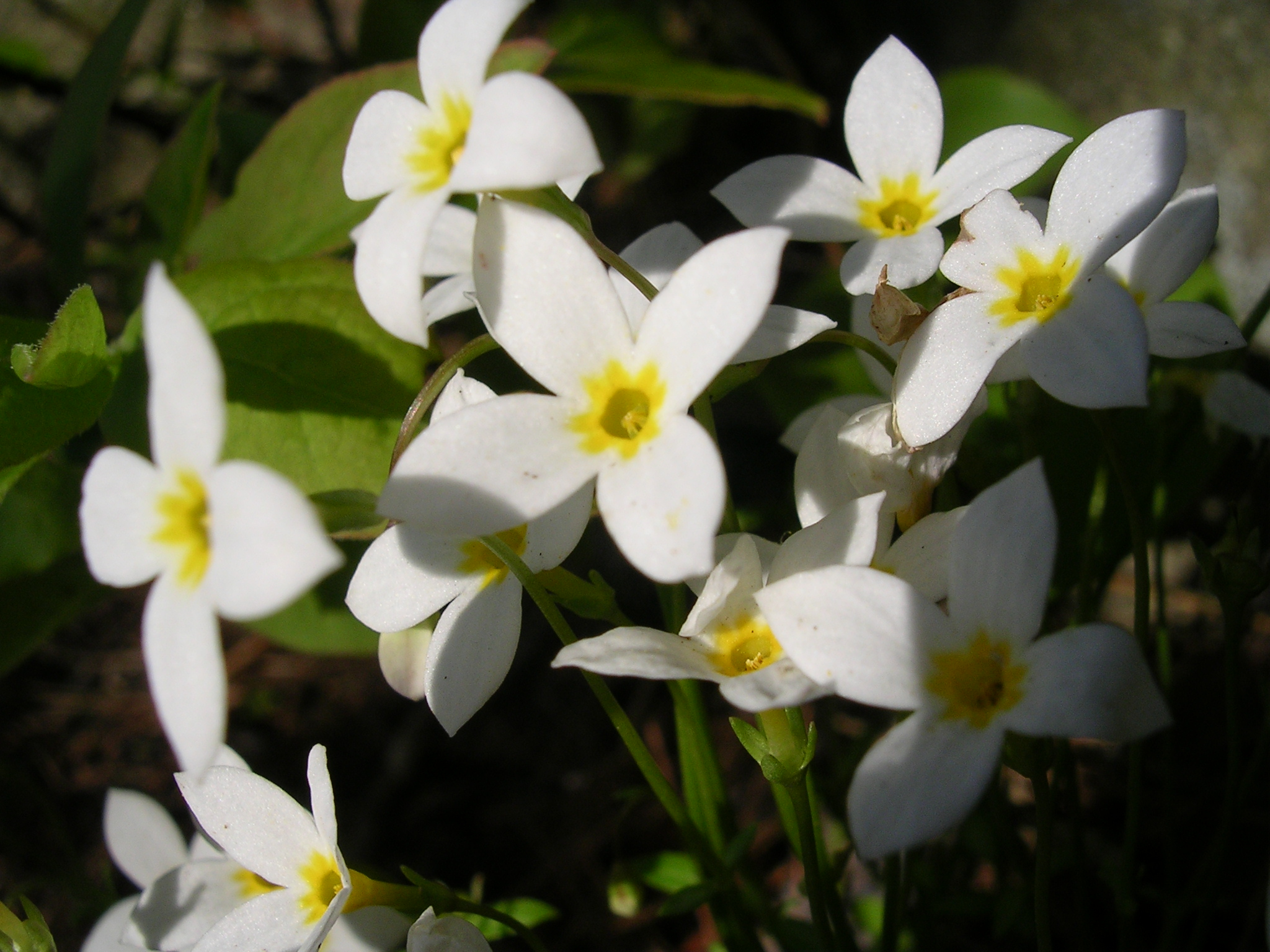 Close-up photograph of houstonia flowers. Taken in Rindge, New Hampshire.